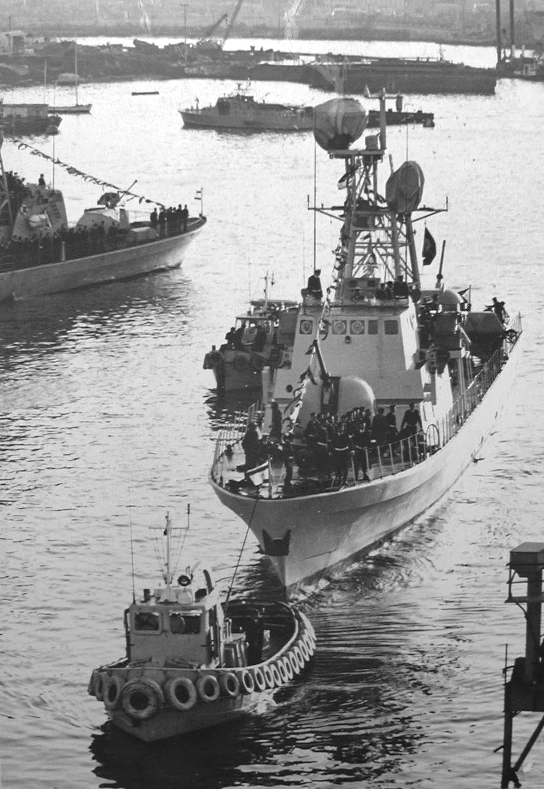 INS Reshef, Israel Defense Forces